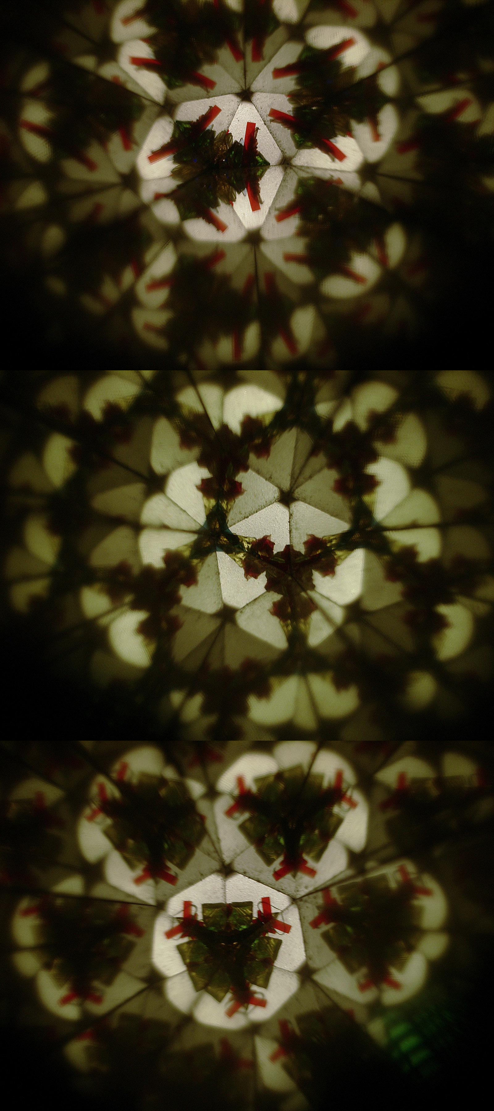 A kaleidoscopic pattern made using a simple toy kaleidoscope tube. Picture taken by myself 2005-07-20 --Rnbc 00:21, July 21, 2005 (UTC)